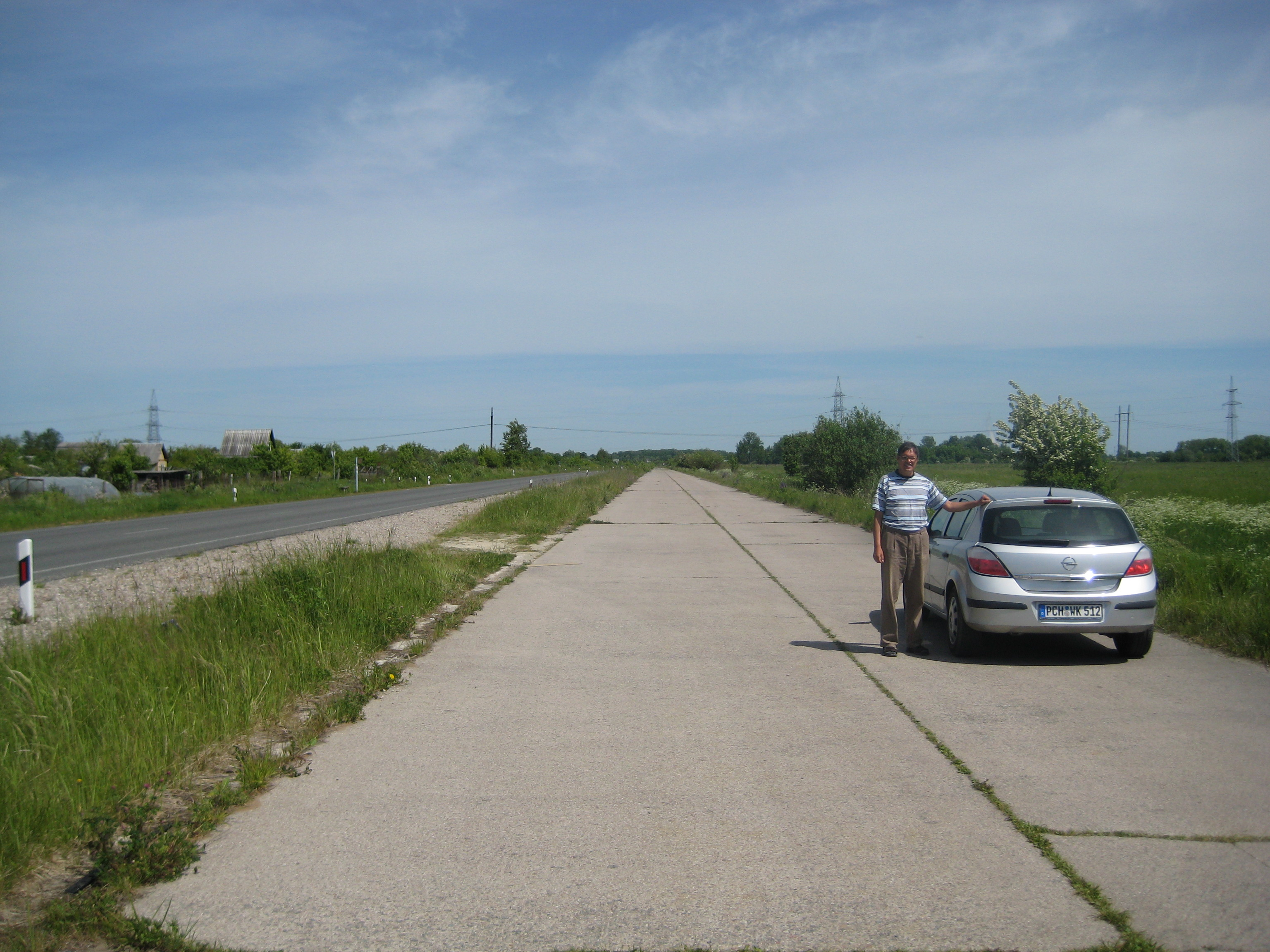 Old German Reichsautobahn Elbing - Königsberg in East Prussia, south of Königsberg